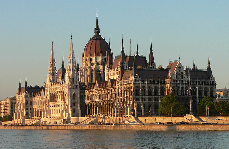 Parliament building, Budapest